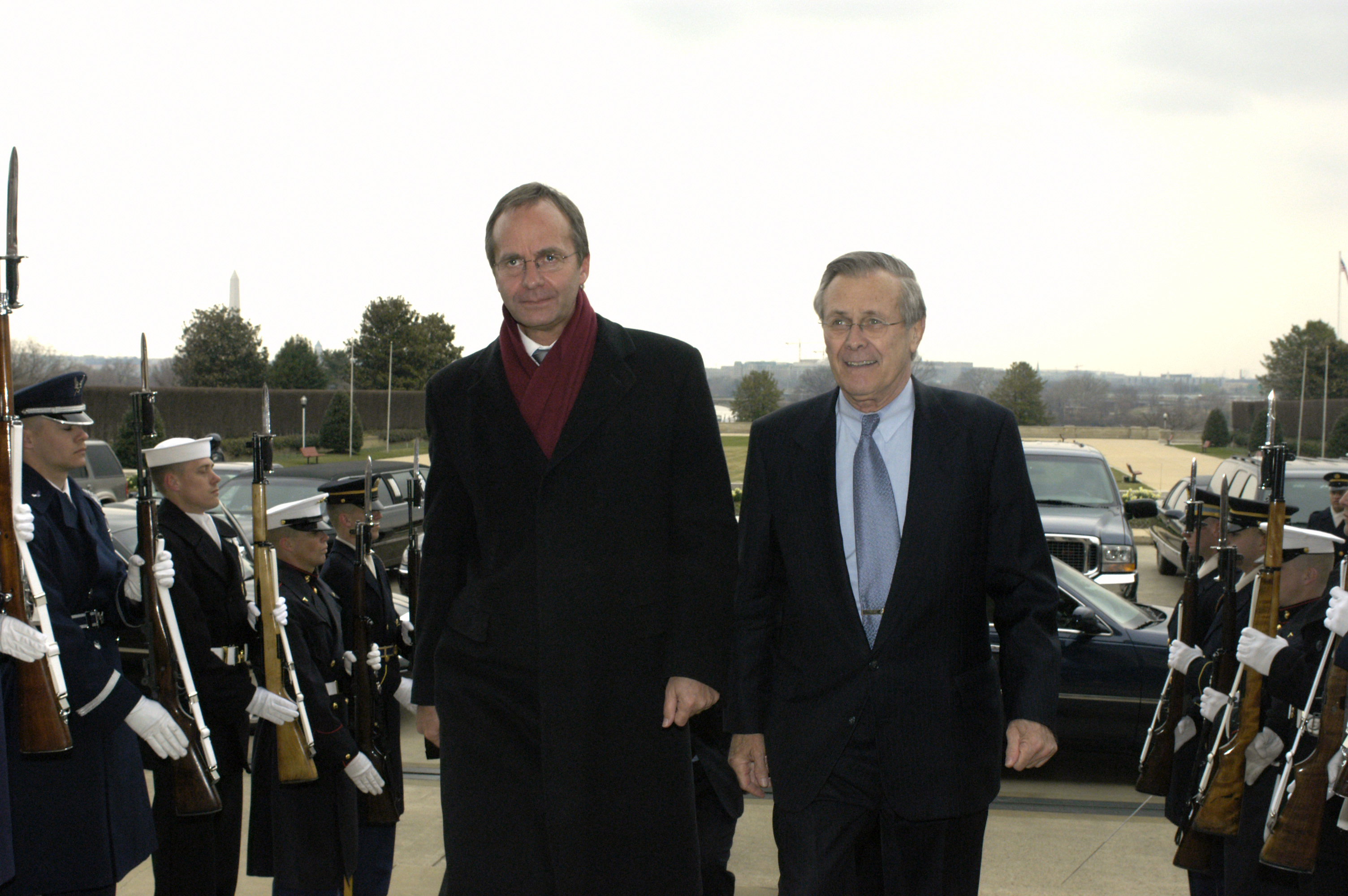 Minister of Defense Henk Kamp of the Netherlands is escorted through an honor cordon and into the Pentagon by Secretary of Defense Donald H. Rumsfeld on March 17, 2004. The two leaders are meeting to discuss defense issues of mutual interest. DoD photo by Helene C. Stikkel.